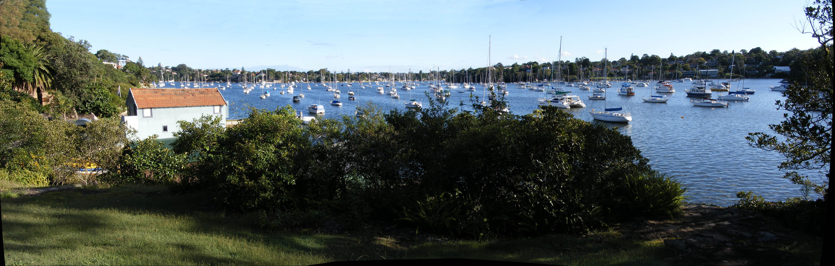 Woodford Bay Lane Cove New South Wales 6 photos